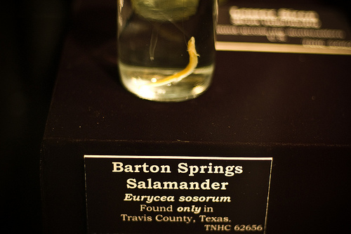 Barton Springs salamander (Eurycea sosorum); Travis County, Texas